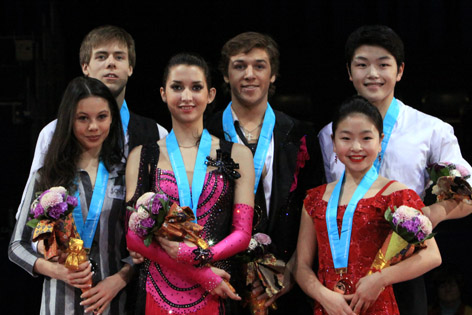 The ice dancing podium at the 2009-2010 Junior Grand Prix of Figure Skating Final. From left: Elena Ilinykh / Nikita Katsalapov (2nd), Ksenia Monko / Kirill Khaliavin (1st), Maia Shibutani / Alex Shibutani (3rd).